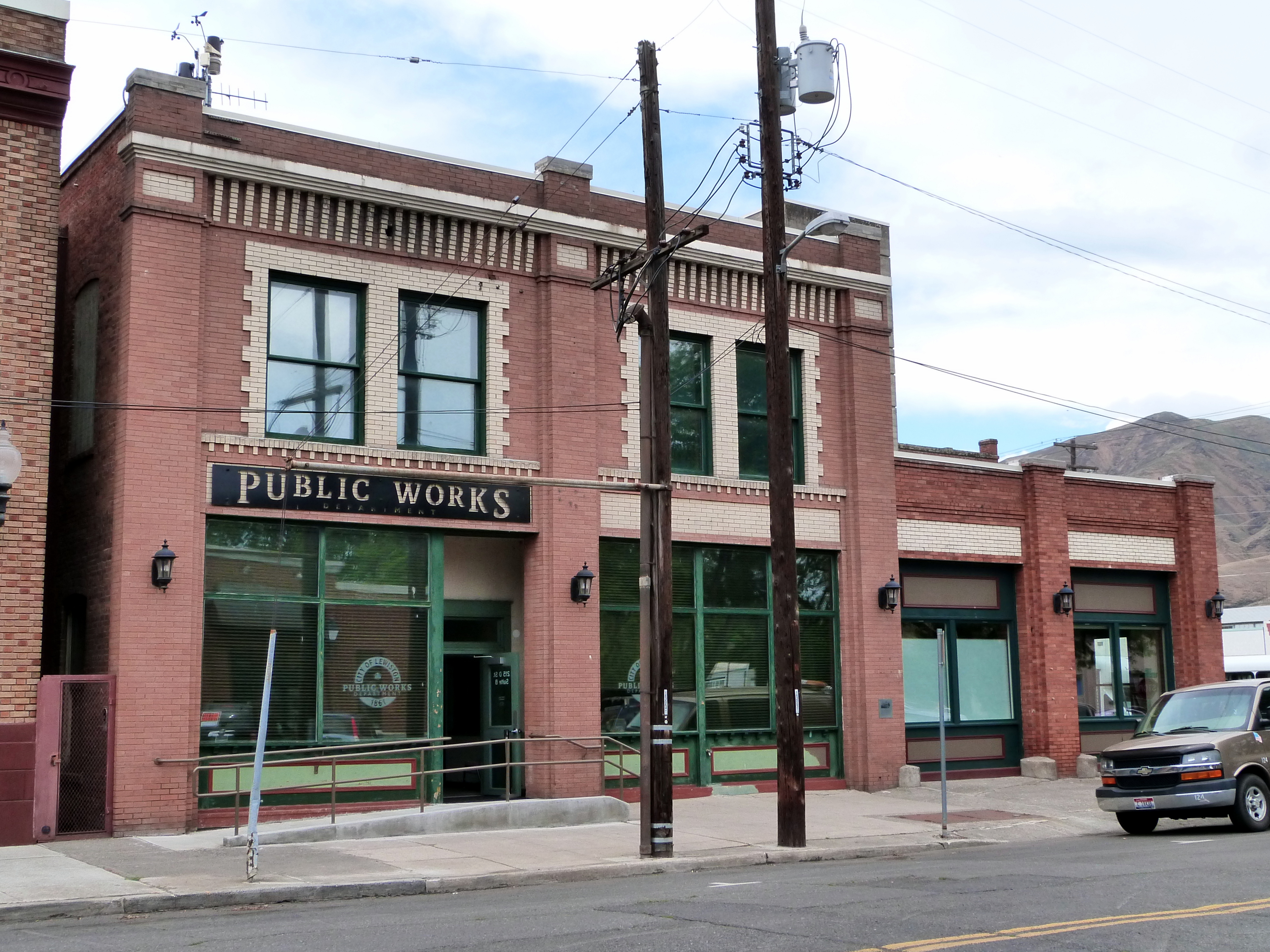 The historic former City Hall (built 1909) of Lewiston, Idaho, United States, located at 207 3rd Street, is listed on the US National Register of Historic Places. It is additionally listed as a contributing resource in the National Register-listed Lewiston Historic District.